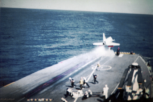 A A-4 Skyhawk being launched from HMAS Melbourne off Hervey Bay, Queensland during the K2 exercise in 1976